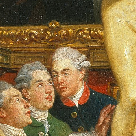 Roger Wilbraham et al. Detail from Johan_Zoffany_-_Tribuna_of_the_Uffizi